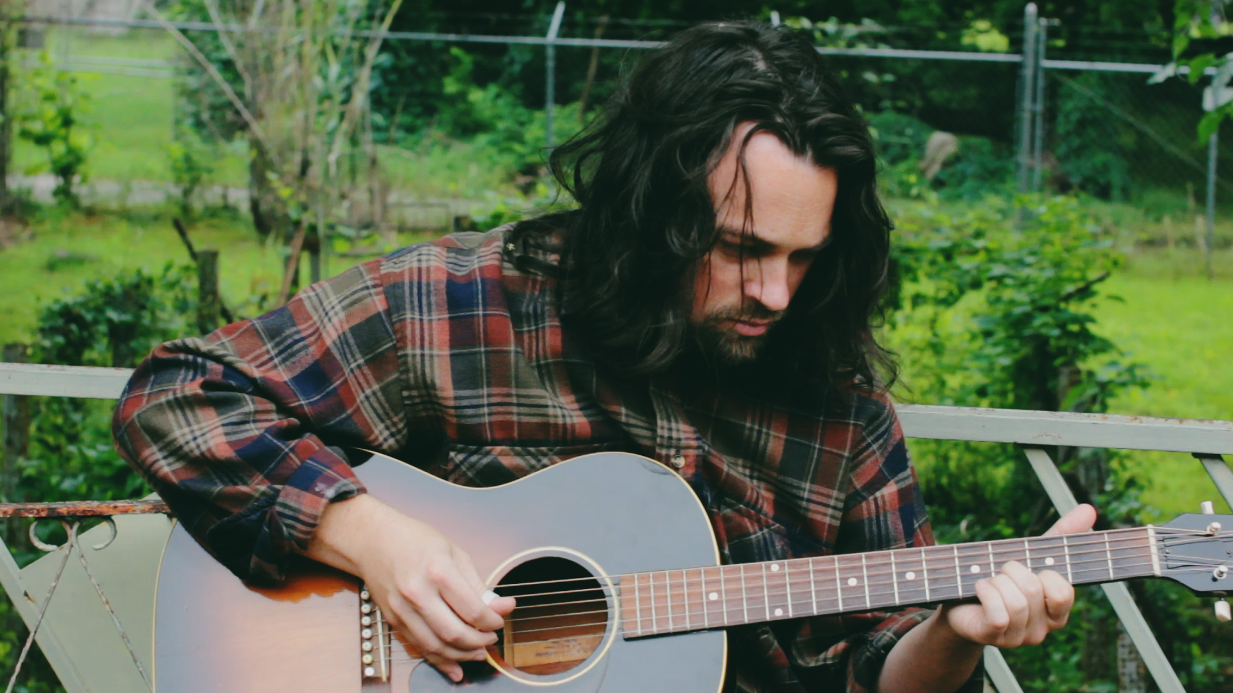 Dylan Golden Aycock press photo